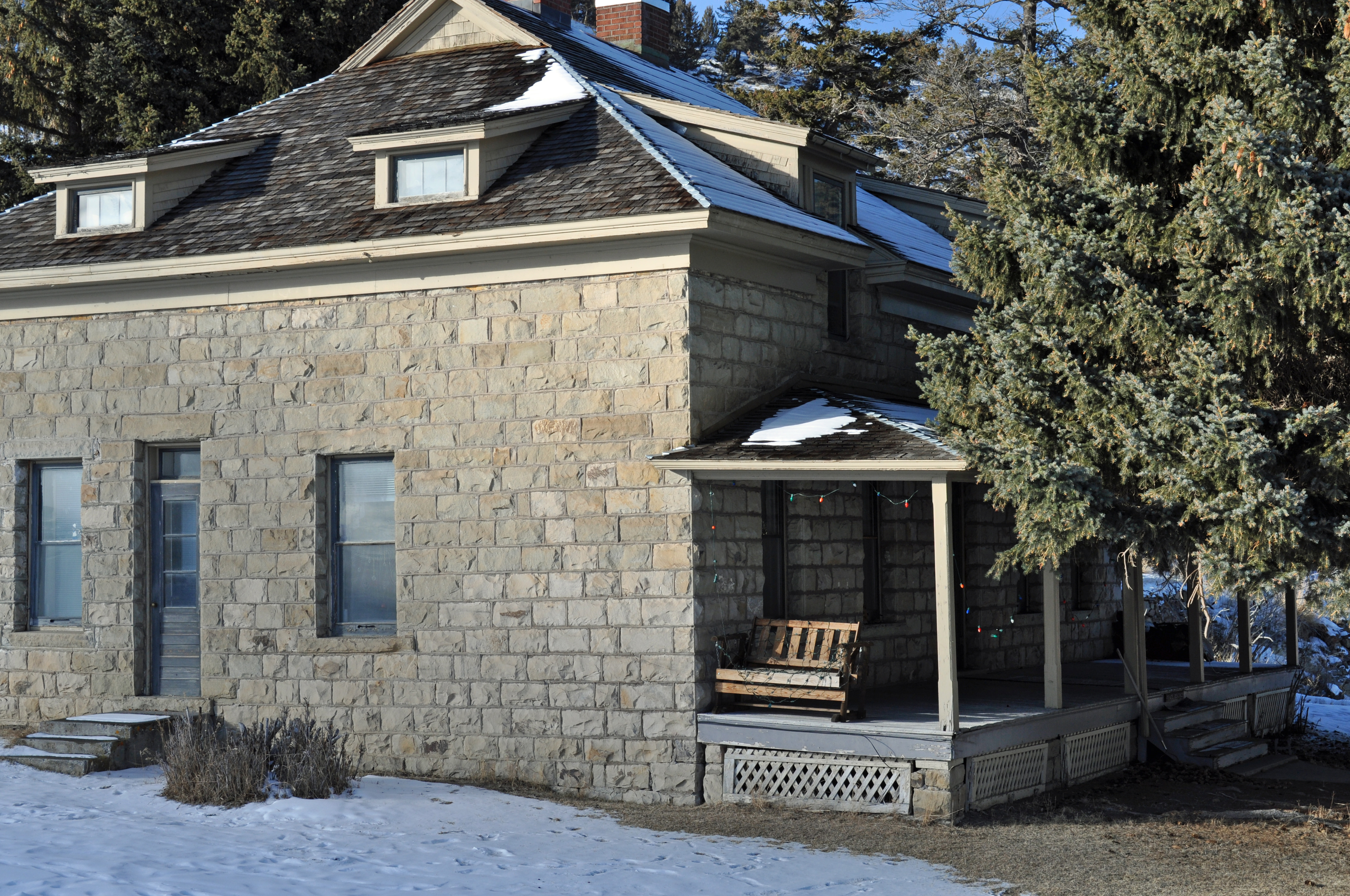 U.S. Commissioners Office, Mammoth Hot Springs, Yellowstine National Park, December 2009 Built August 1894. (Now a private residence)